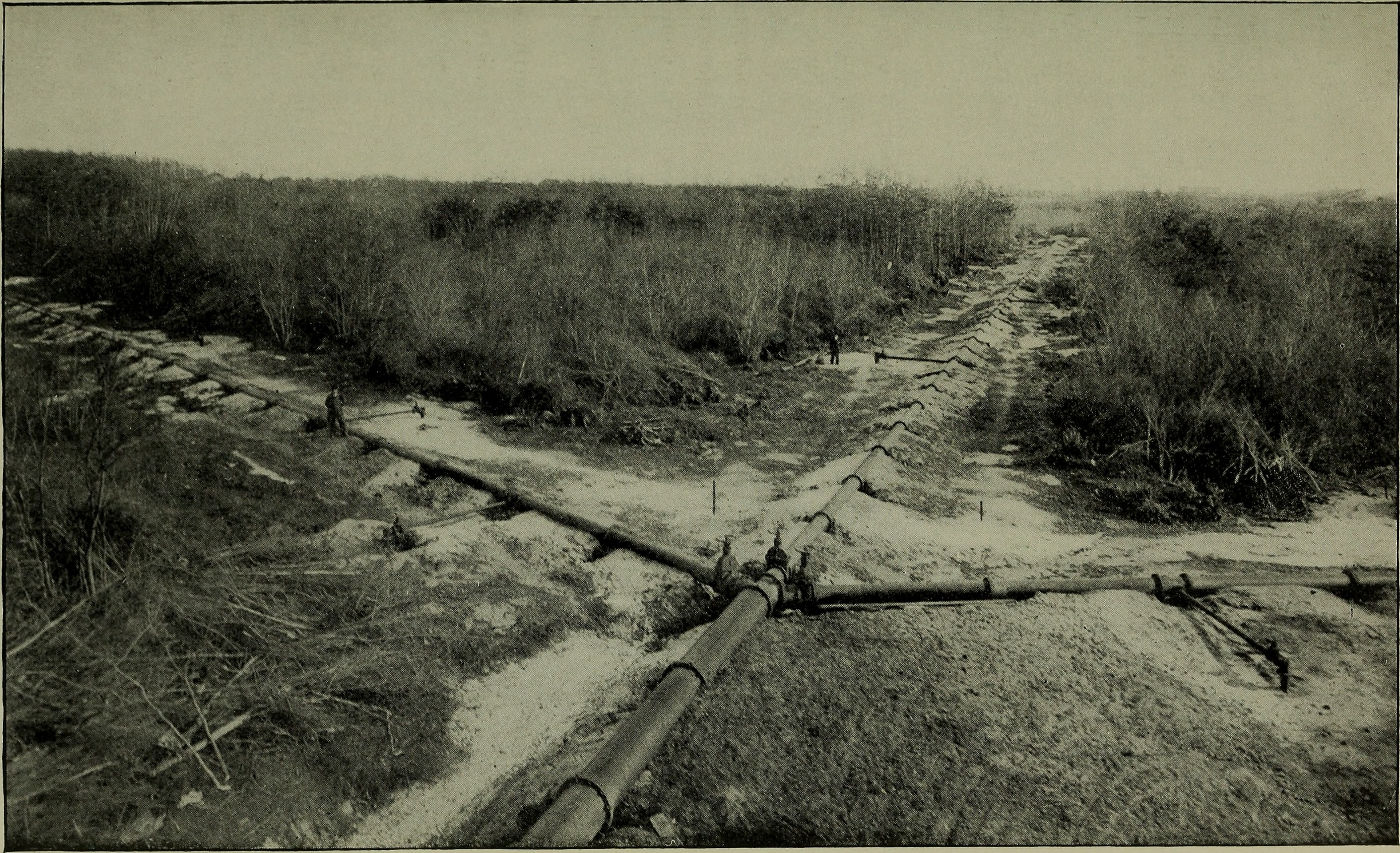 Title: Bulletin - New York State Museum Year: 1887 (1880s) Authors: New York State Museum; New York State Museum Subjects: Science Publisher: Albany : New York State Education Dept Text Appearing Before Image: ' Text Appearing After Image: '